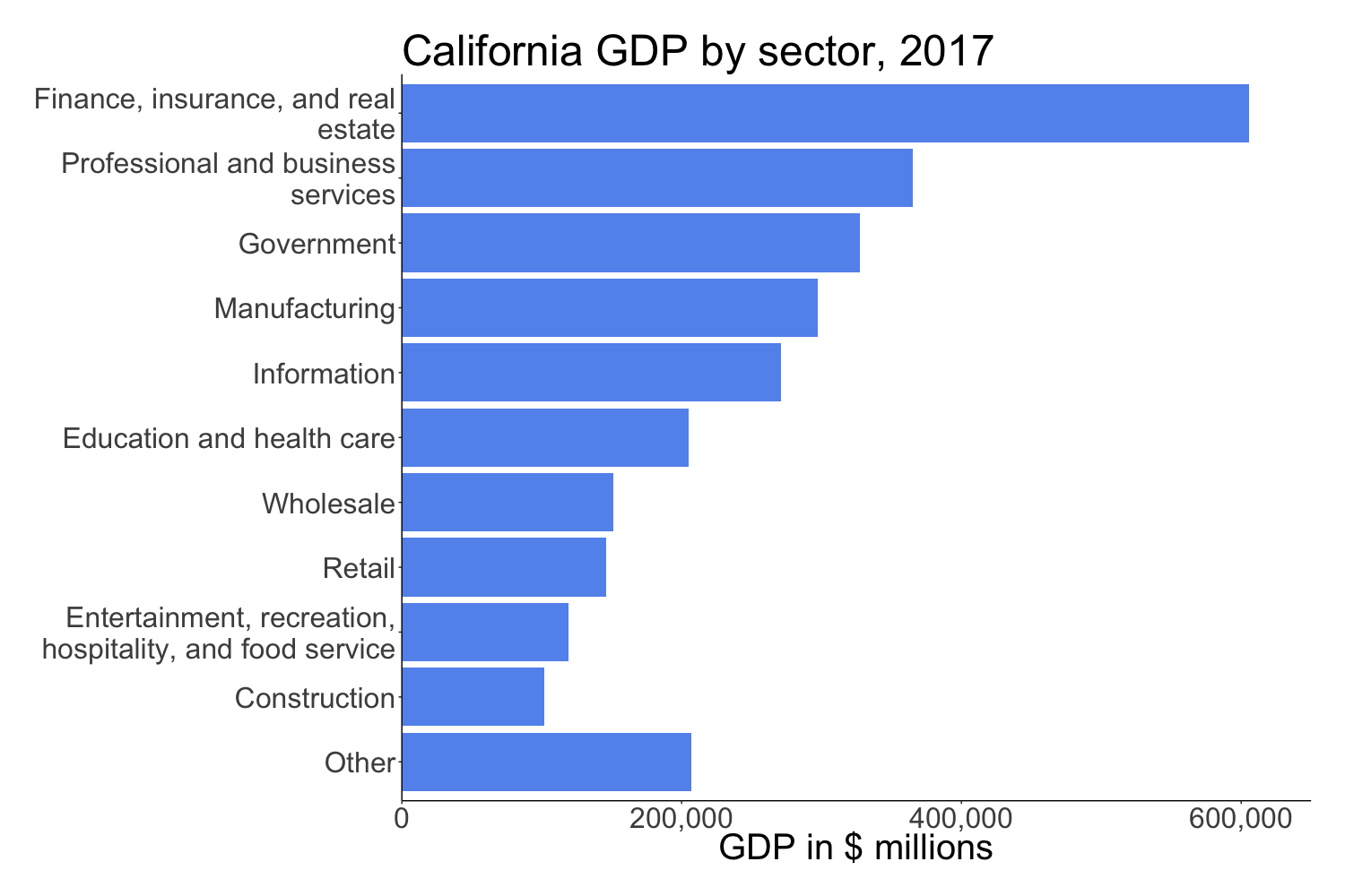 Data from BEA [1]